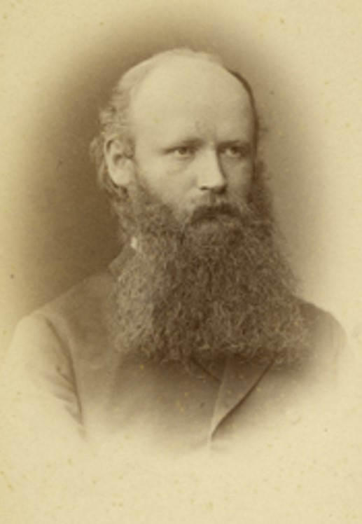 Swiss missionary (1854 - 1918)